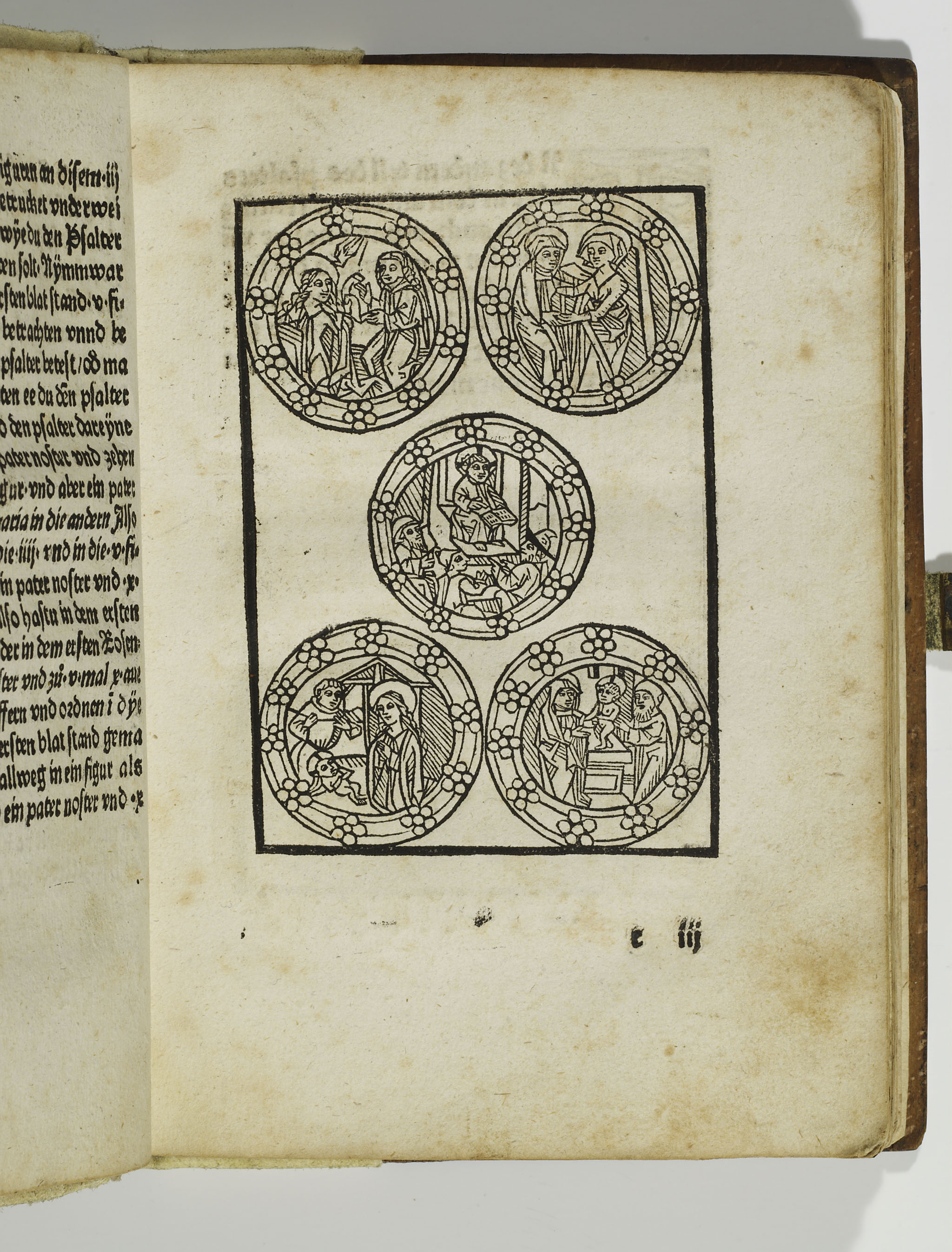 Vignettes with scenes from life of Virgin Mary